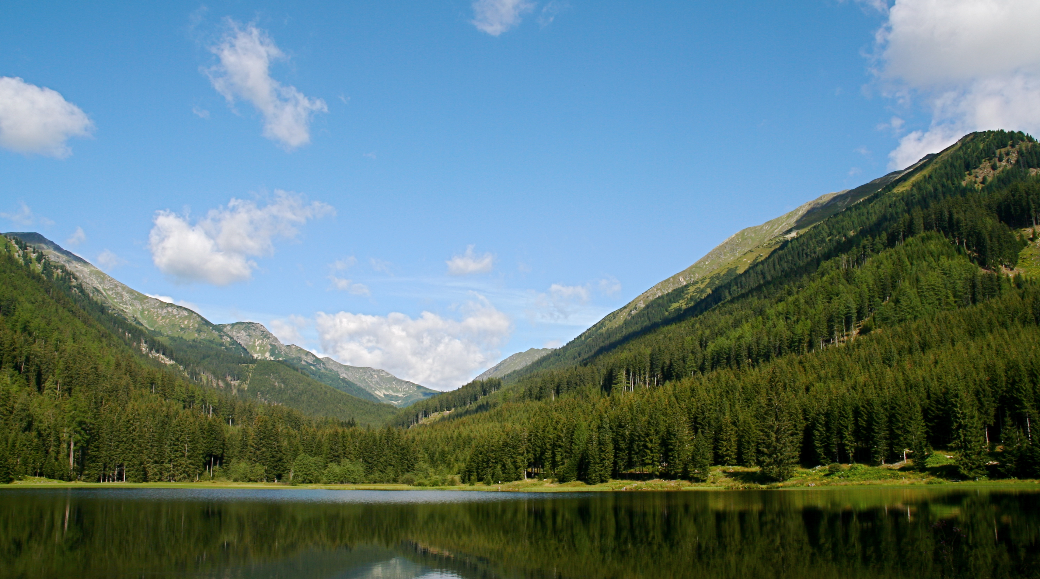 Ingeringsee (Lake Ingering) a lake in the middle of the Styrian Alps (Austria) near Knittelfeld.